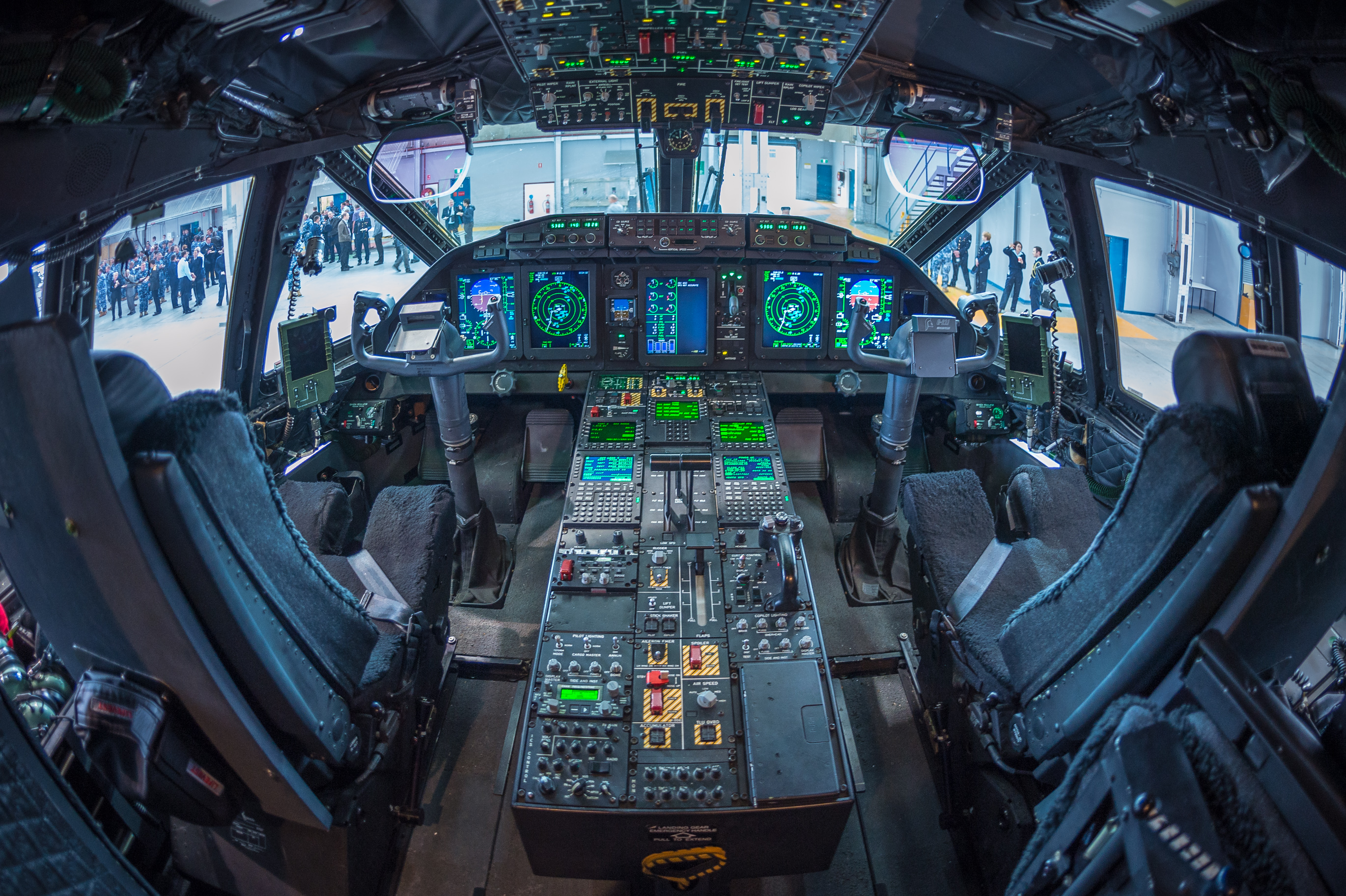 The Royal Australian Air Force first C-27J Spartan battlefield airlift aircraft on display following the welcome ceremony at RAAF Base Richmond on June 30, 2015